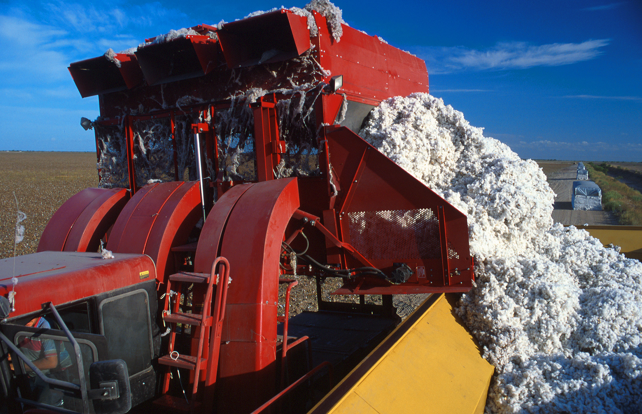 Cotton harvesting in Texas, USA; unloading freshly harvested cotton to a module builder.